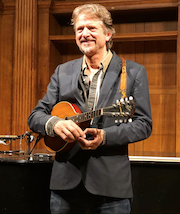 Cooper was introducing a song during his solo concert.